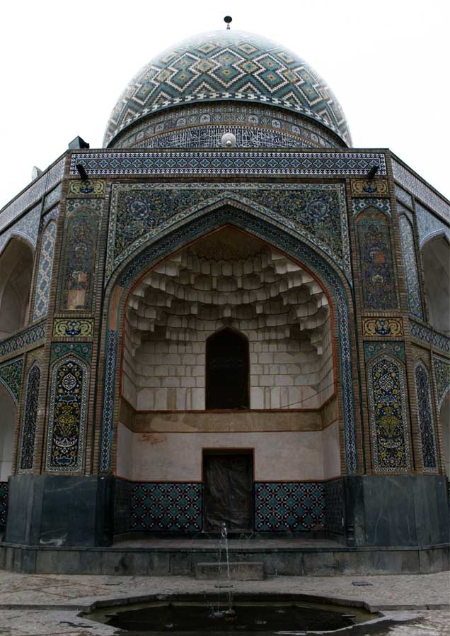 Qadam Ghah Mosque